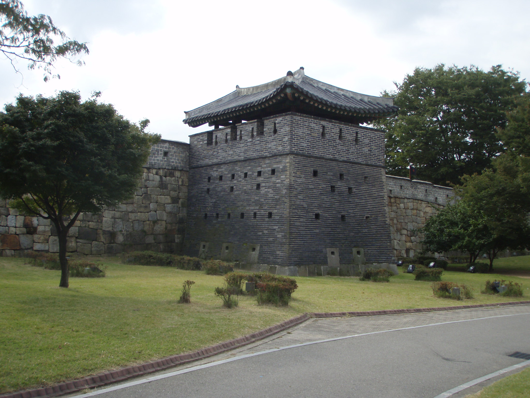 BukseoPoru Suwon Hwaseong Fortress UNESCO